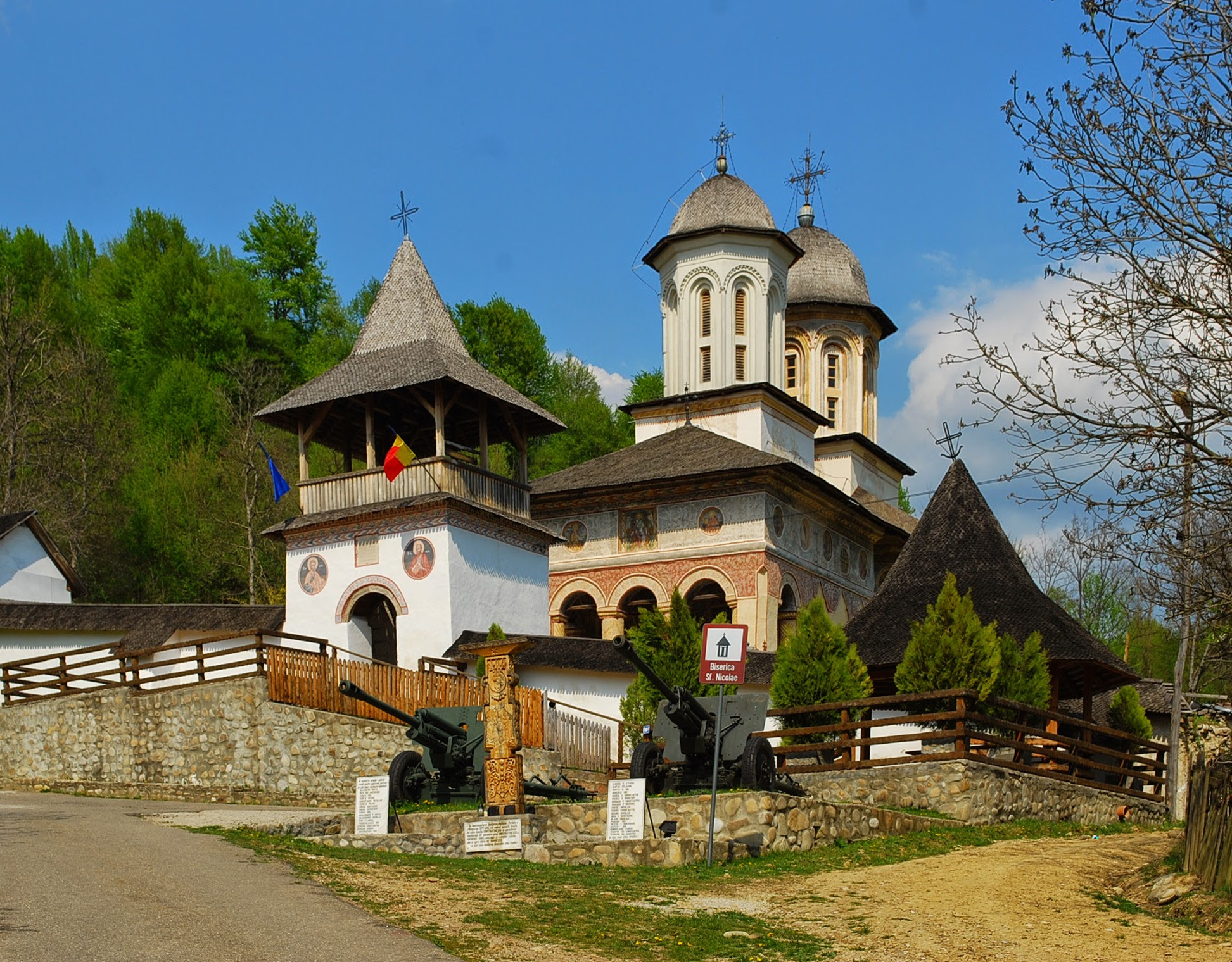 Saint Nicholas' church in Bâscenii de Jos, Calvini commune, Buzău County, RomaniaRomână: Biserica „Sfântul Nicolae” din Bâscenii de Jos, comuna Calvini, județul Buzău, România